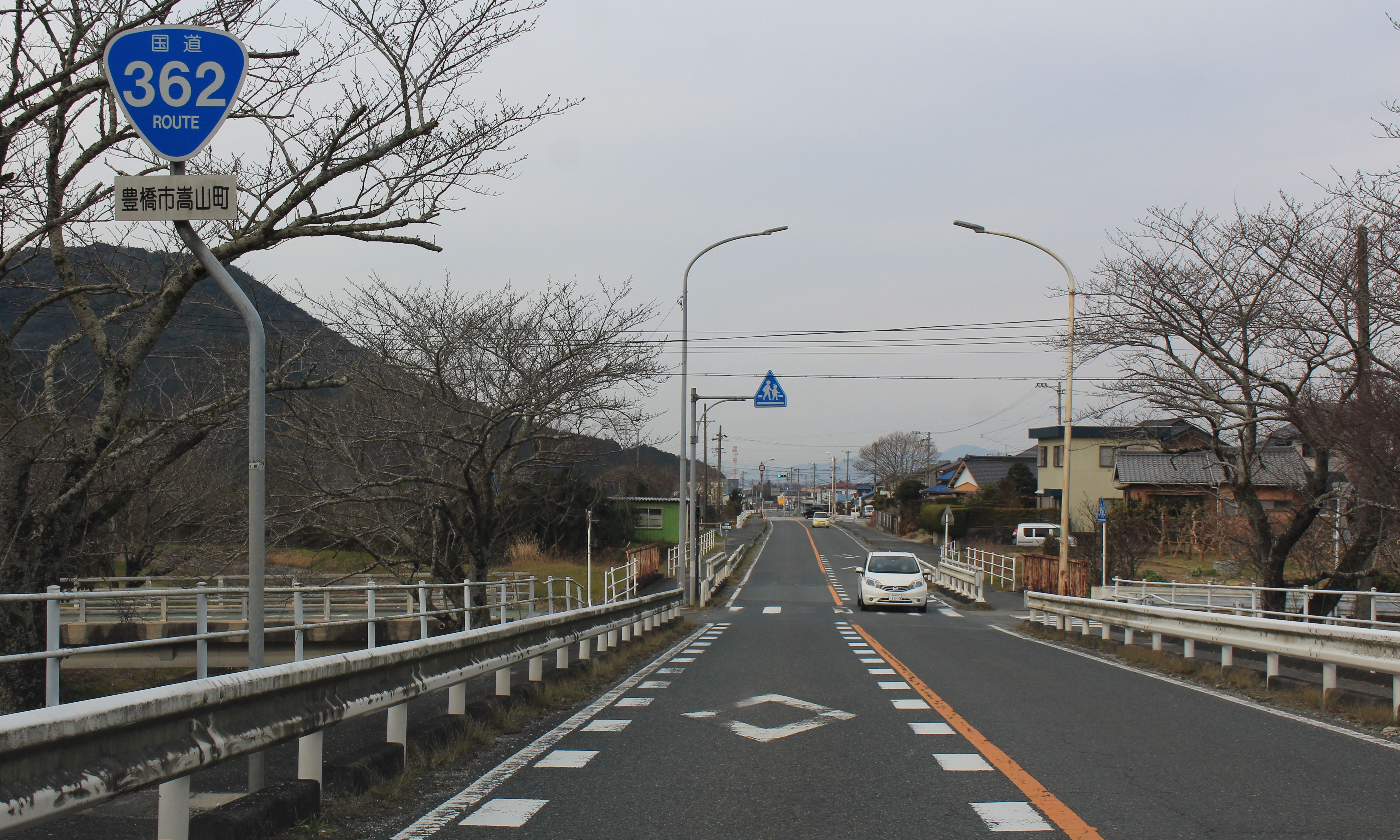 Route 362 in Suse, Toyohashi, Aichi prefecture, Japan.